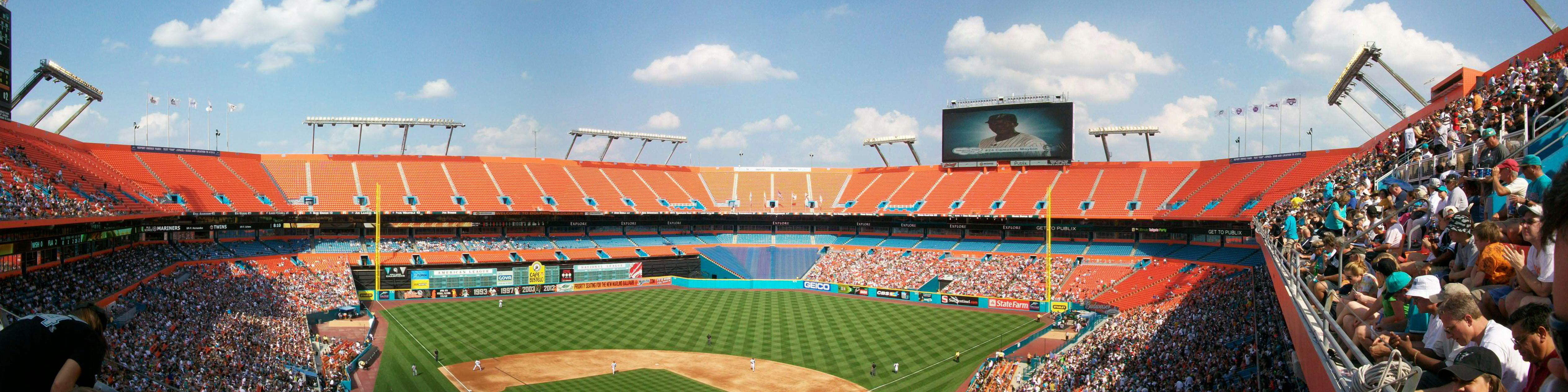 A panoramic picture of the interior of Dolphin Stadium in Miami, Florida. My first ever panoramic picture. Taken during the Florida Marlins opening day game.